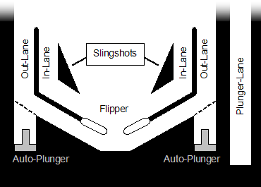 the bottom part of a typical pinball machine (In-Lane, Out-Lane, Plunger-Lane, Slingshots)